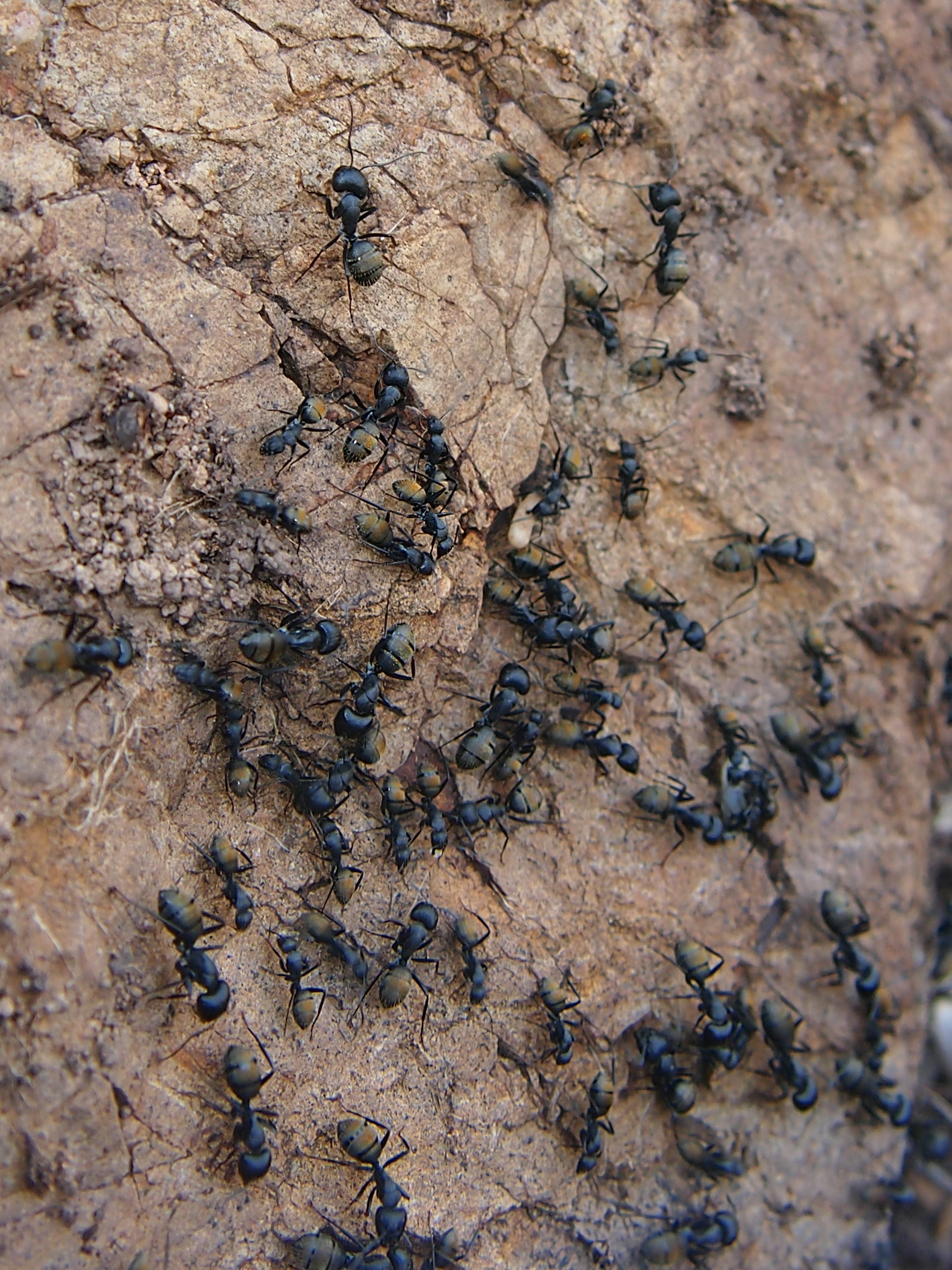 Swarm of black sugar ants (Camponotus aeneopilosus) clinging to the overturned rock under which they had built their nest